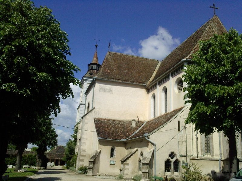 The Bartolomeu Church (13th. century)